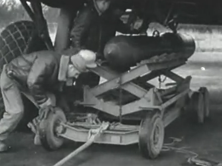 Still from a World War 2 movie produced by the US Army Pictorial Service. Showing a Disney bomb being loaded onto a B-17 bomber.